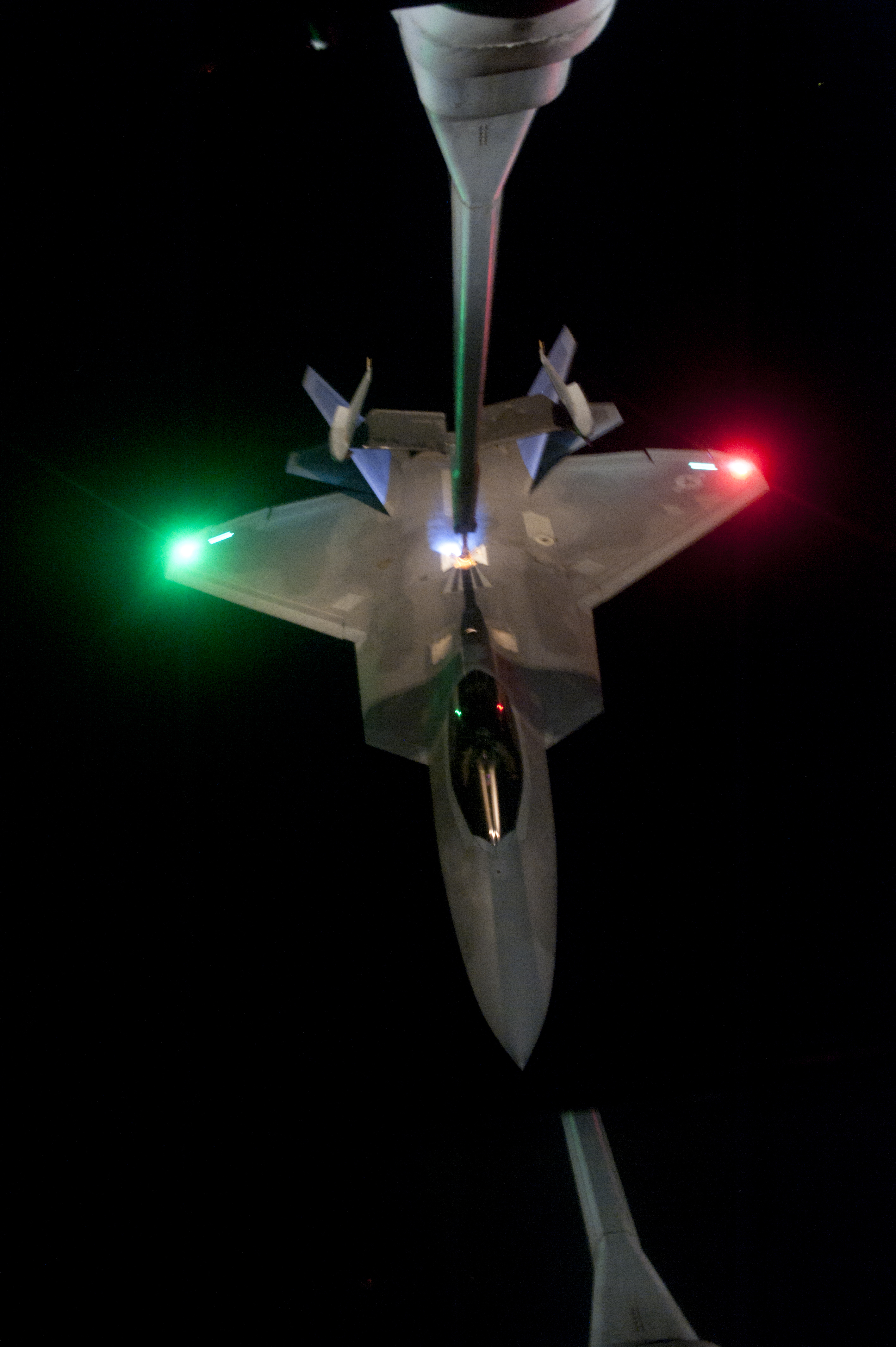 An U.S Air Force KC-10 Extender refuels an F-22 Raptor fighter aircraft prior to strike operations in Syria, Sept. 26, 2014. These aircraft were part of a strike package that was engaging ISIL targets in Syria. (U.S. Air Force photo by Tech. Sgt. Russ Scalf)